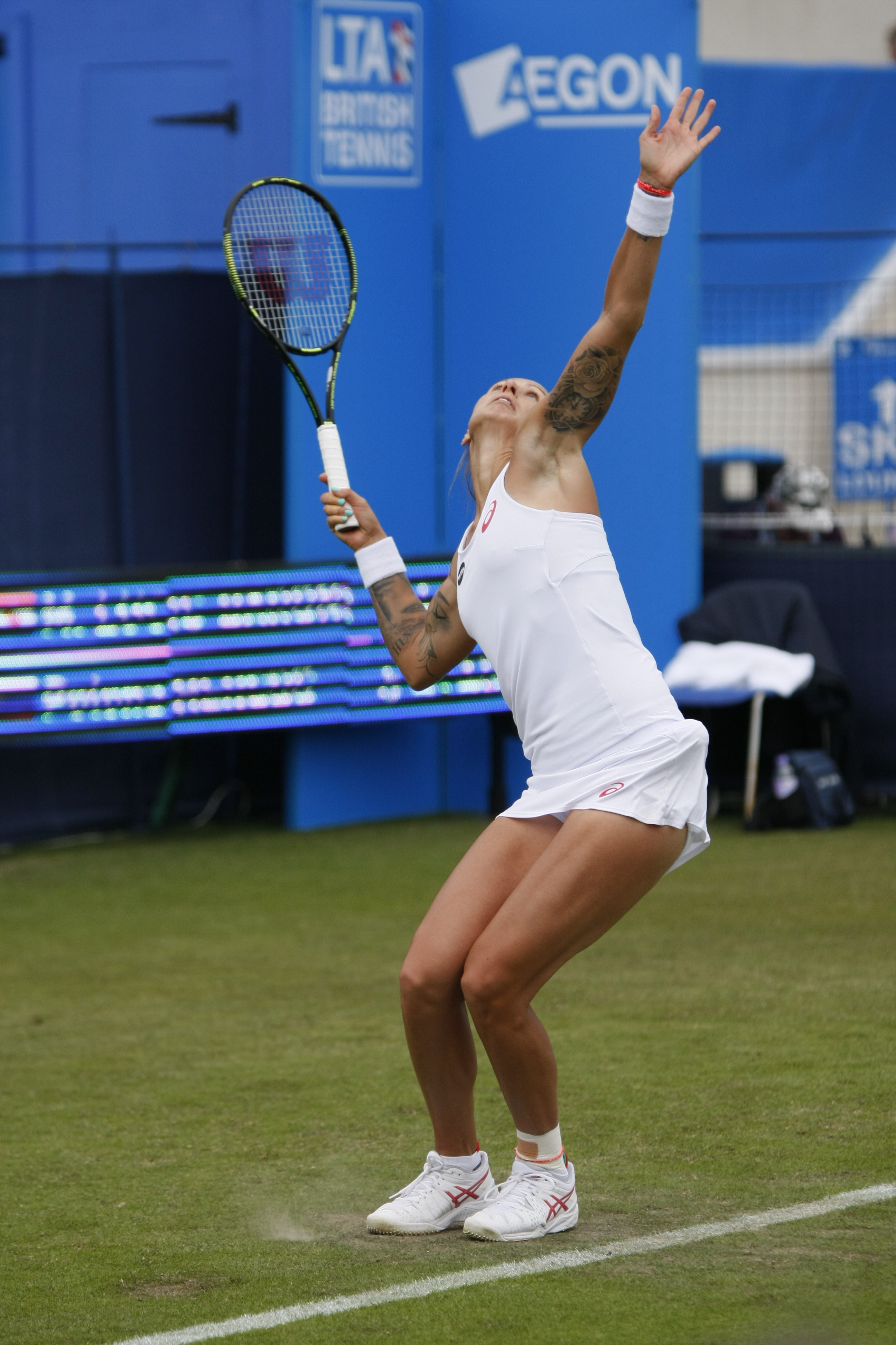 Aegon International Tennis, Devonshire Park, Eastbourne June 2015